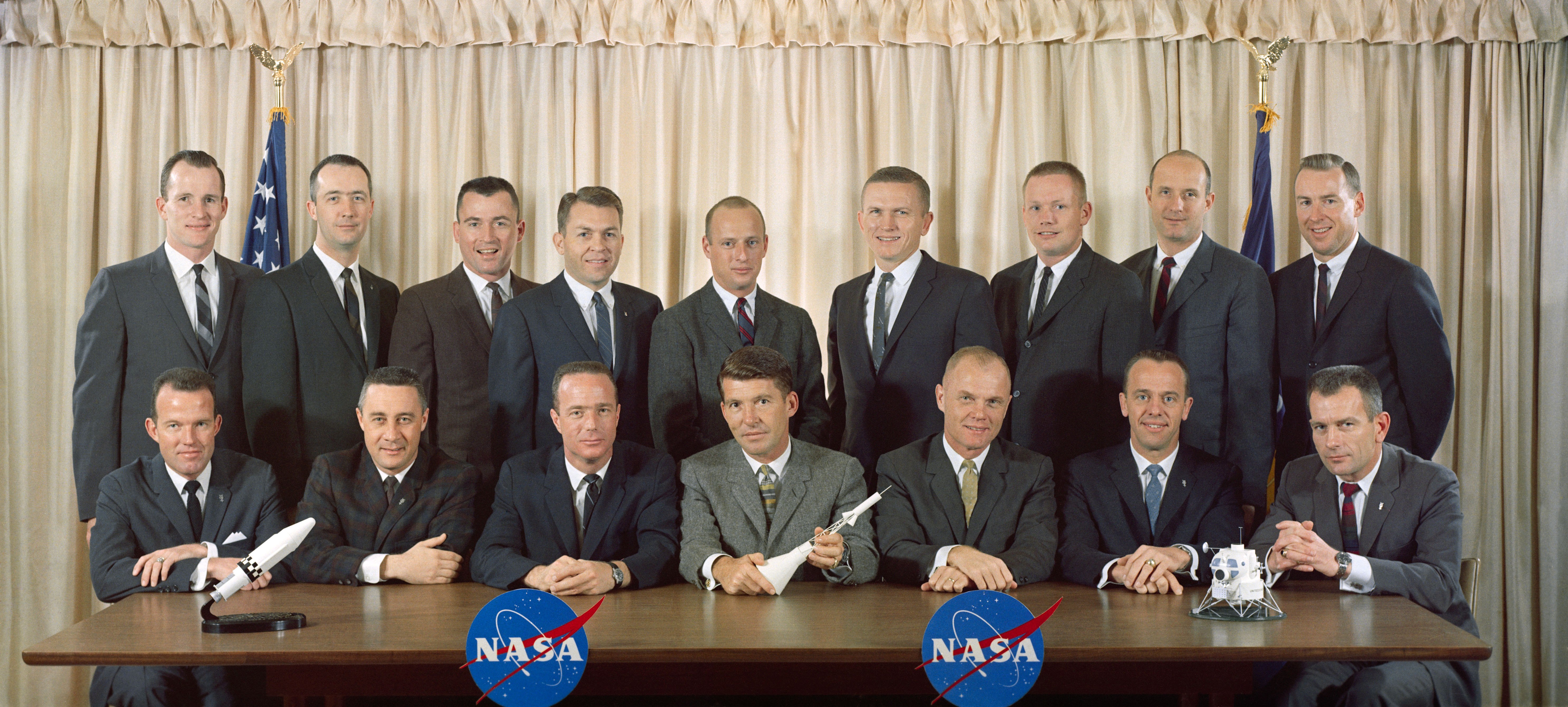 The first two groups of astronauts selected by the National Aeronautics and Space Administration (NASA). The original seven Mercury astronauts, selected in April 1959, are seated left to right, L. Gordon Cooper Jr., Virgil I. Grissom, M. Scott Carpenter, Walter M. Schirra Jr., John H. Glenn Jr., Alan B. Shepard Jr. and Donald K. Slayton. The second group of NASA astronauts, named in September 1962 are, standing left to right, Edward H. White II, James A. McDivitt, John W. Young, Elliot M. See Jr., Charles Conrad Jr., Frank Borman, Neil A. Armstrong, Thomas P. Stafford and James A. Lovell Jr.